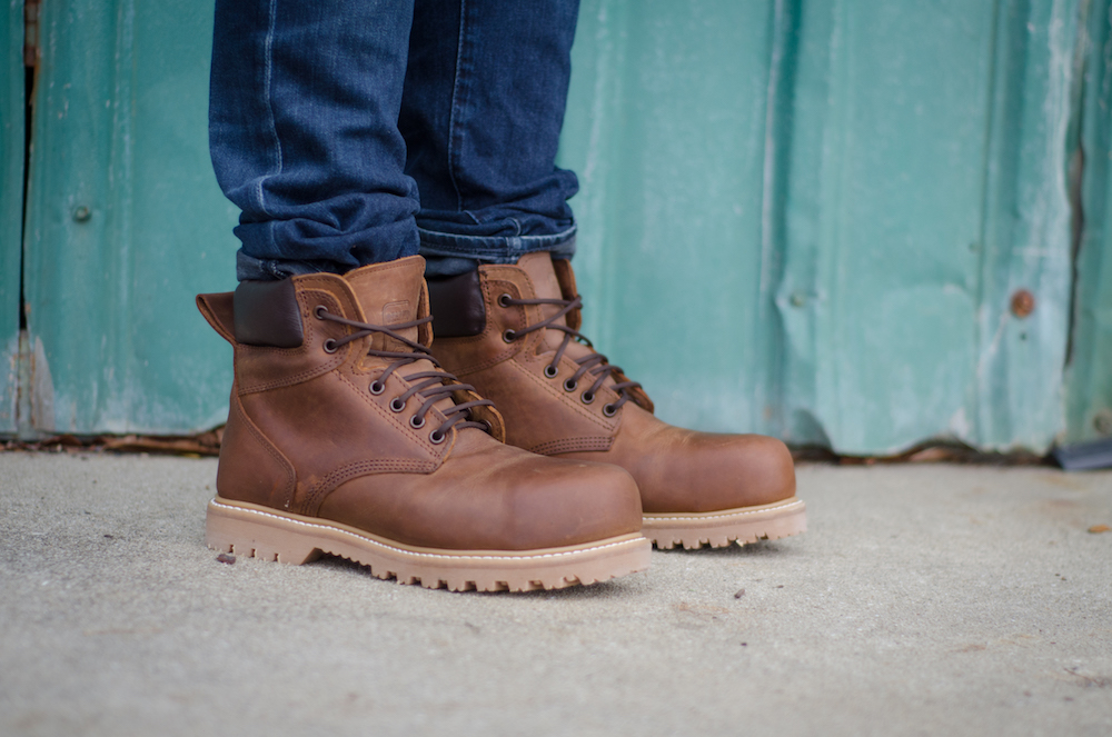 OZAPATO S3 Safety Boot ASTM 2412-2413 certified